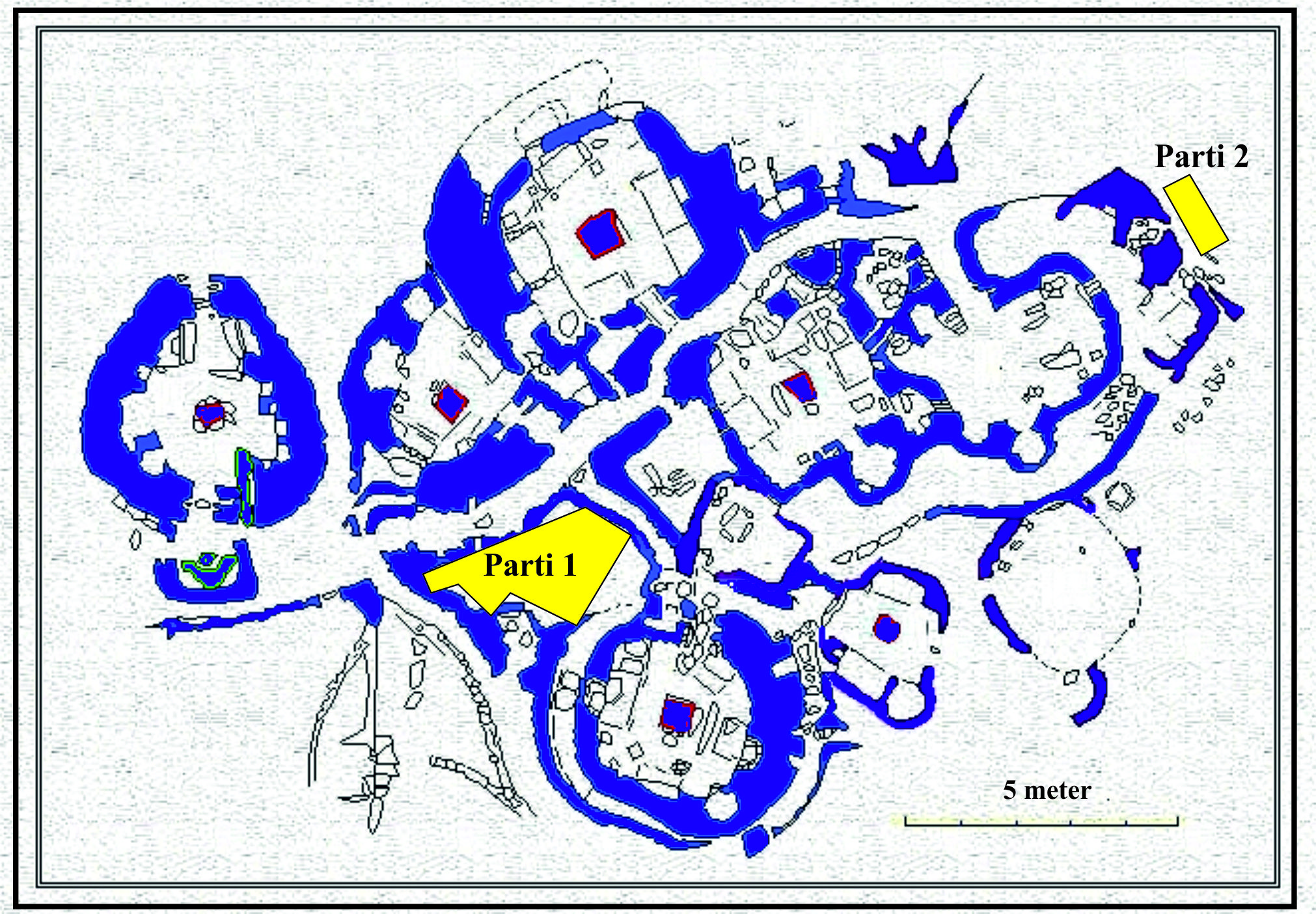 Excavation areas in Skara Brae in the 1970ies.